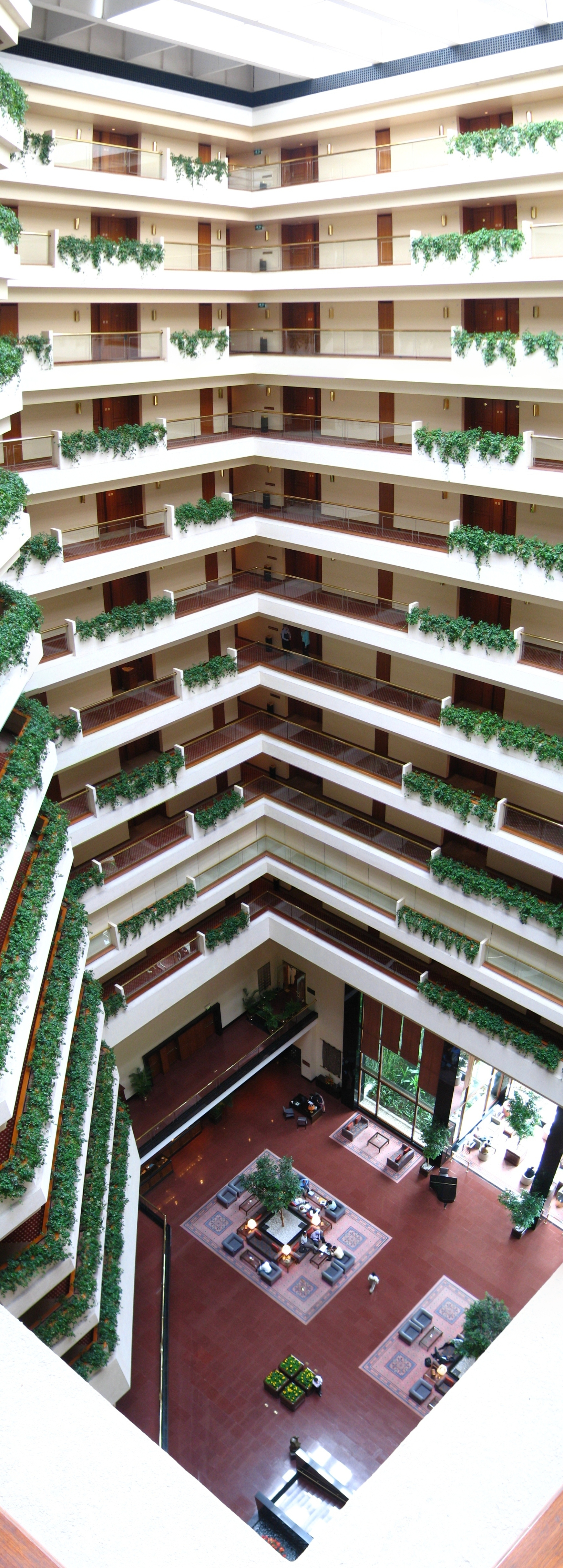 The Oberoi, Mumbai, India